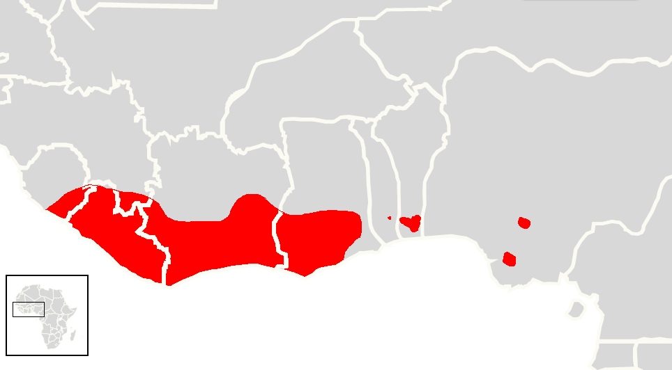 Olive Colobus (Procolobus verus), range map, depending on the range map at IUCN red list